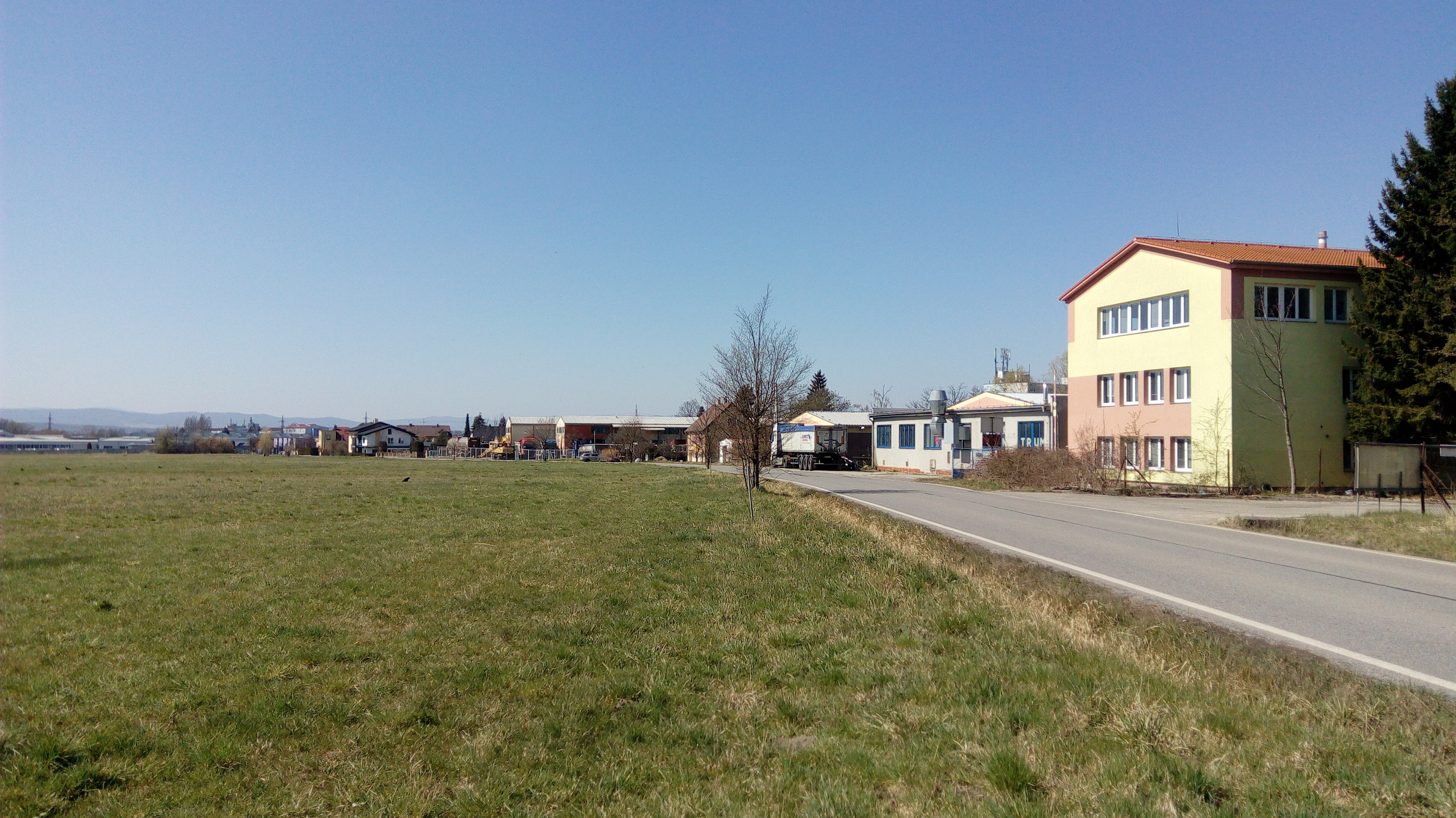 Hlinská, street in Nové Vráto, part of the city of České Budějovice, South Bohemian Region, Czechia